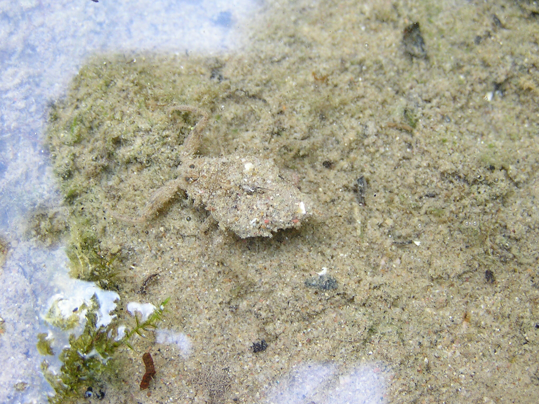 Nepa rubra